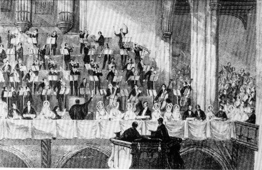 Oratorium University Church of St. Mary the Great 1842 in Cambridge